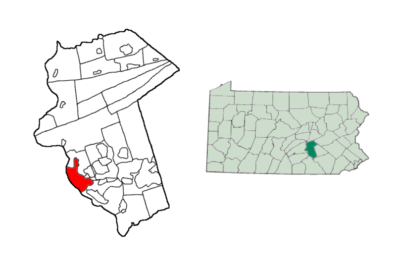 Location map of Harrisburg, Pennsylvania.